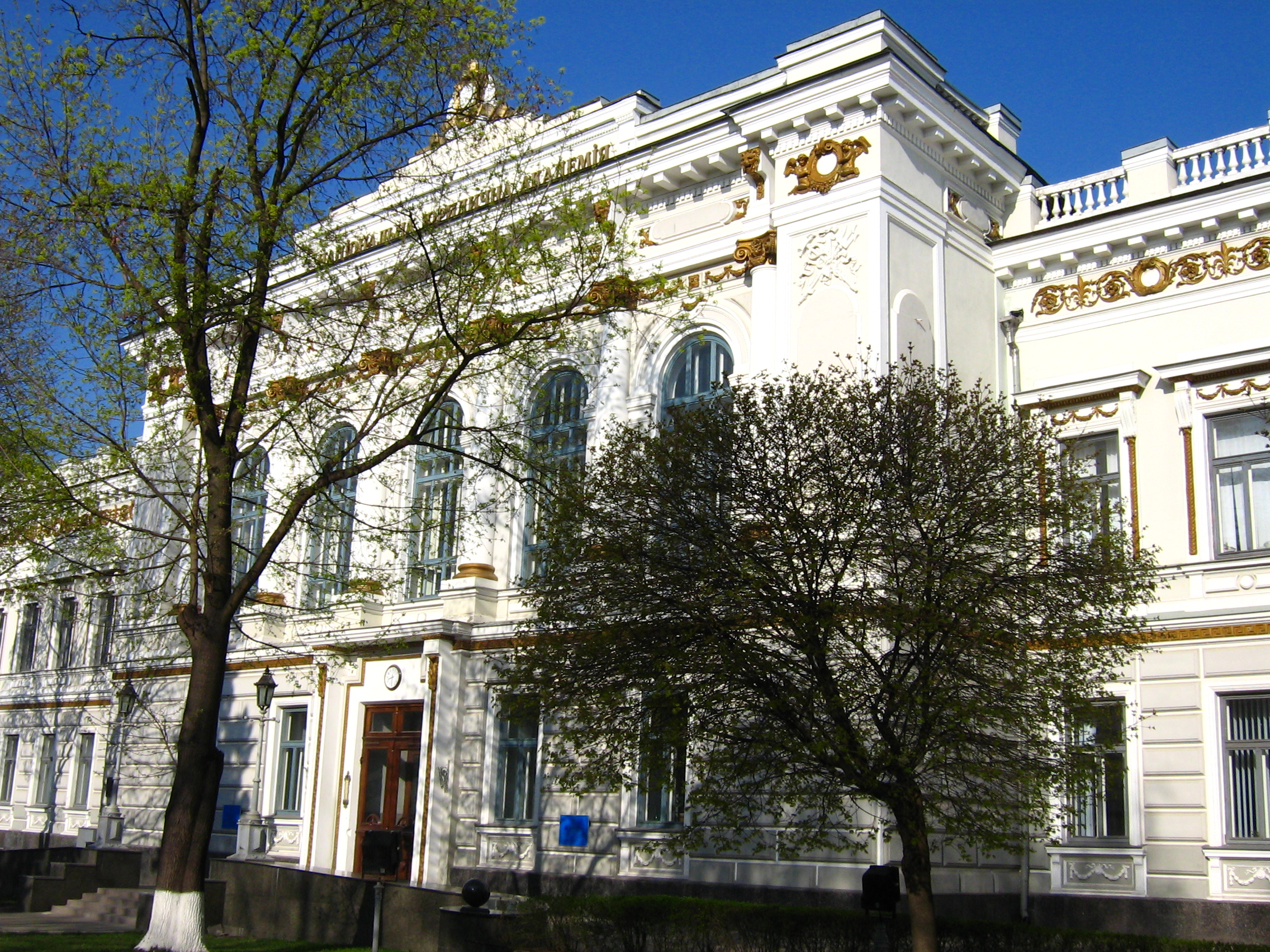 The National Law Academy city of Kharkov. Morning.